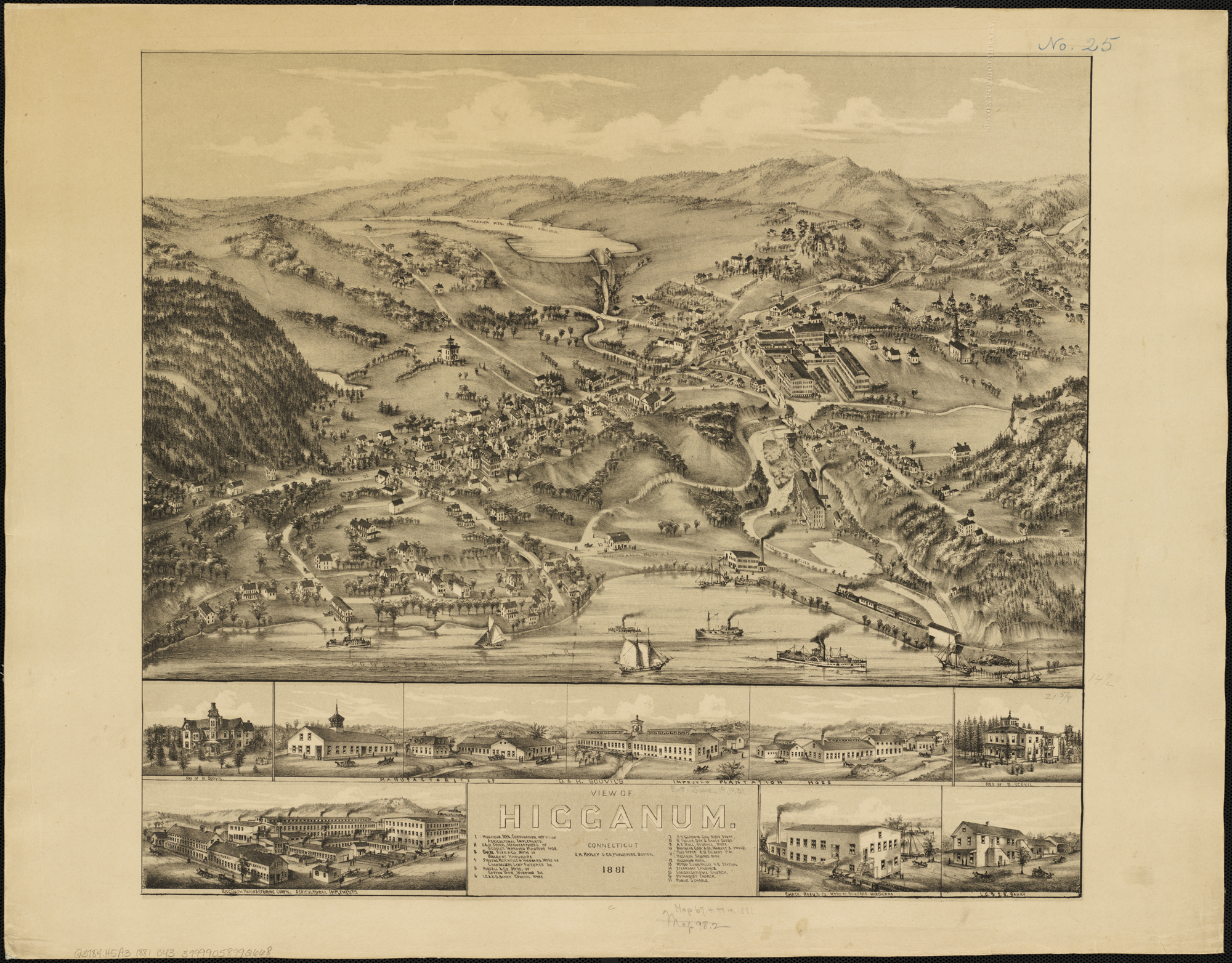 Zoom into this map at . Author: O.H. Bailey & Co. Publisher: O.H. Bailey & Co. Date: 1881 Location: Higganum (Conn.) Scale: Not drawn to scale. Call Number: G3784.H5A3 1881.O43